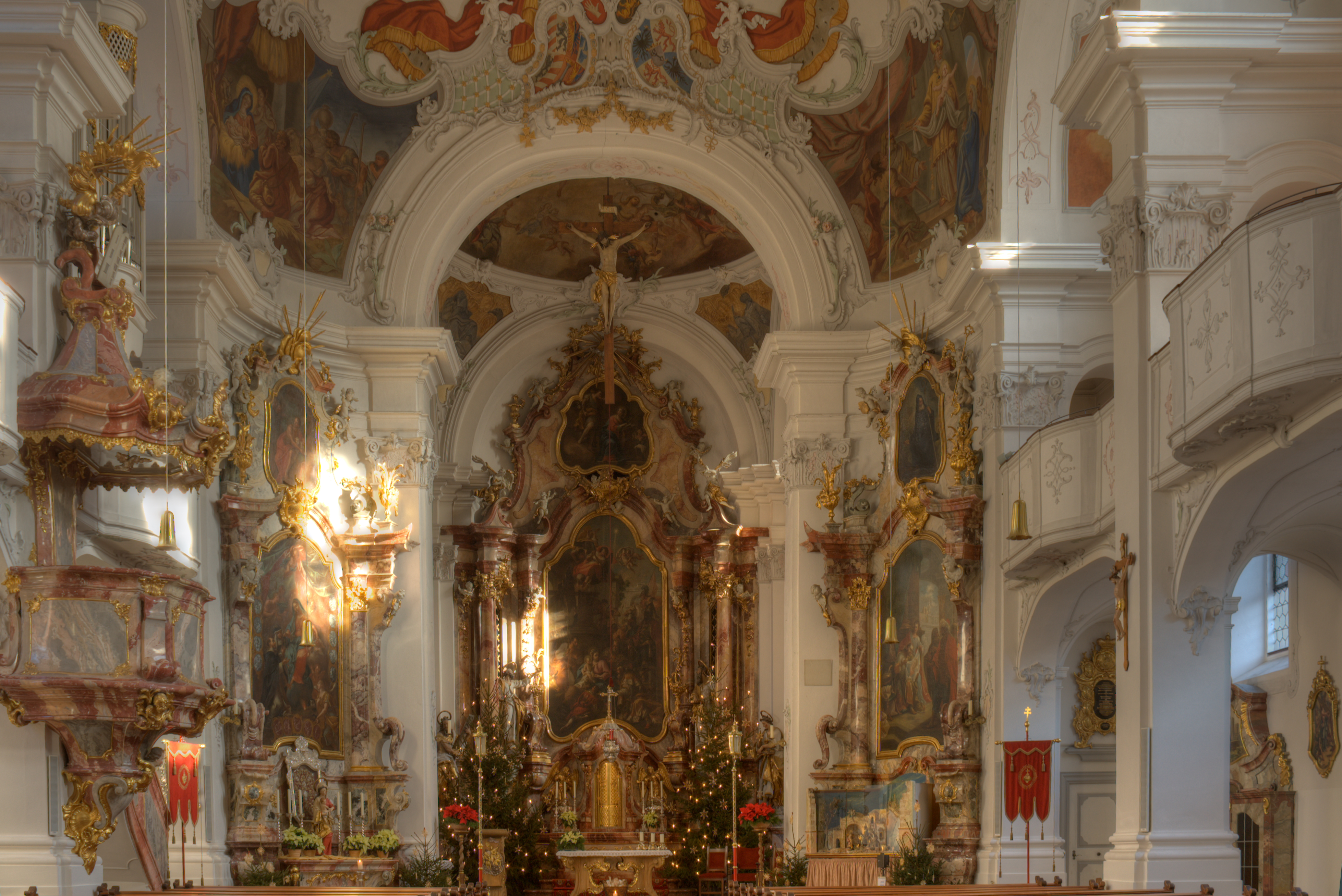 Church and the altar of the Cathedral of "Our Lady" in Lindau on Lake Constance